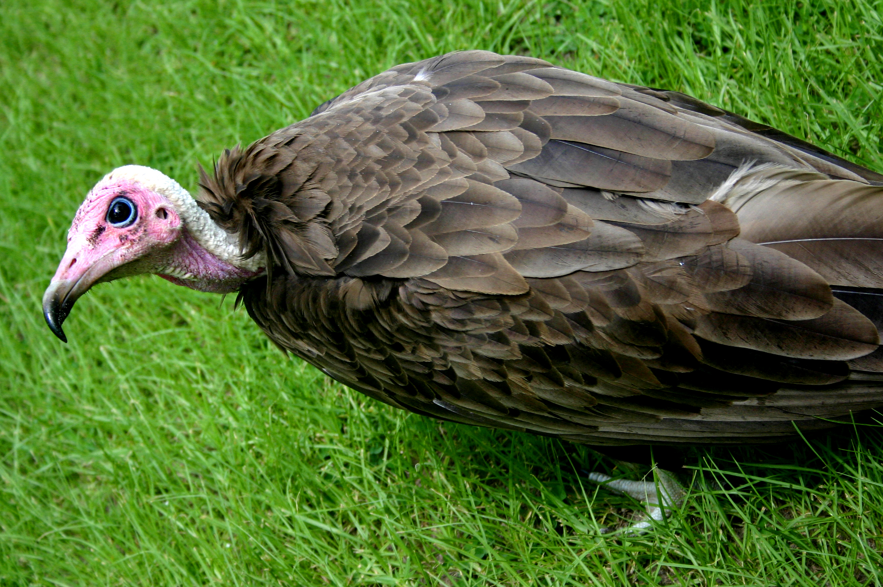 Hooded Vulture Gambia